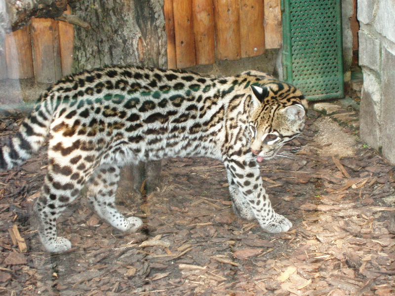 Ocelot (Leopardus pardalis), Bojnice ZOO, Slovakia Ocelot veľký (Leopardus pardalis), ZOO Bojnice, Slovensko